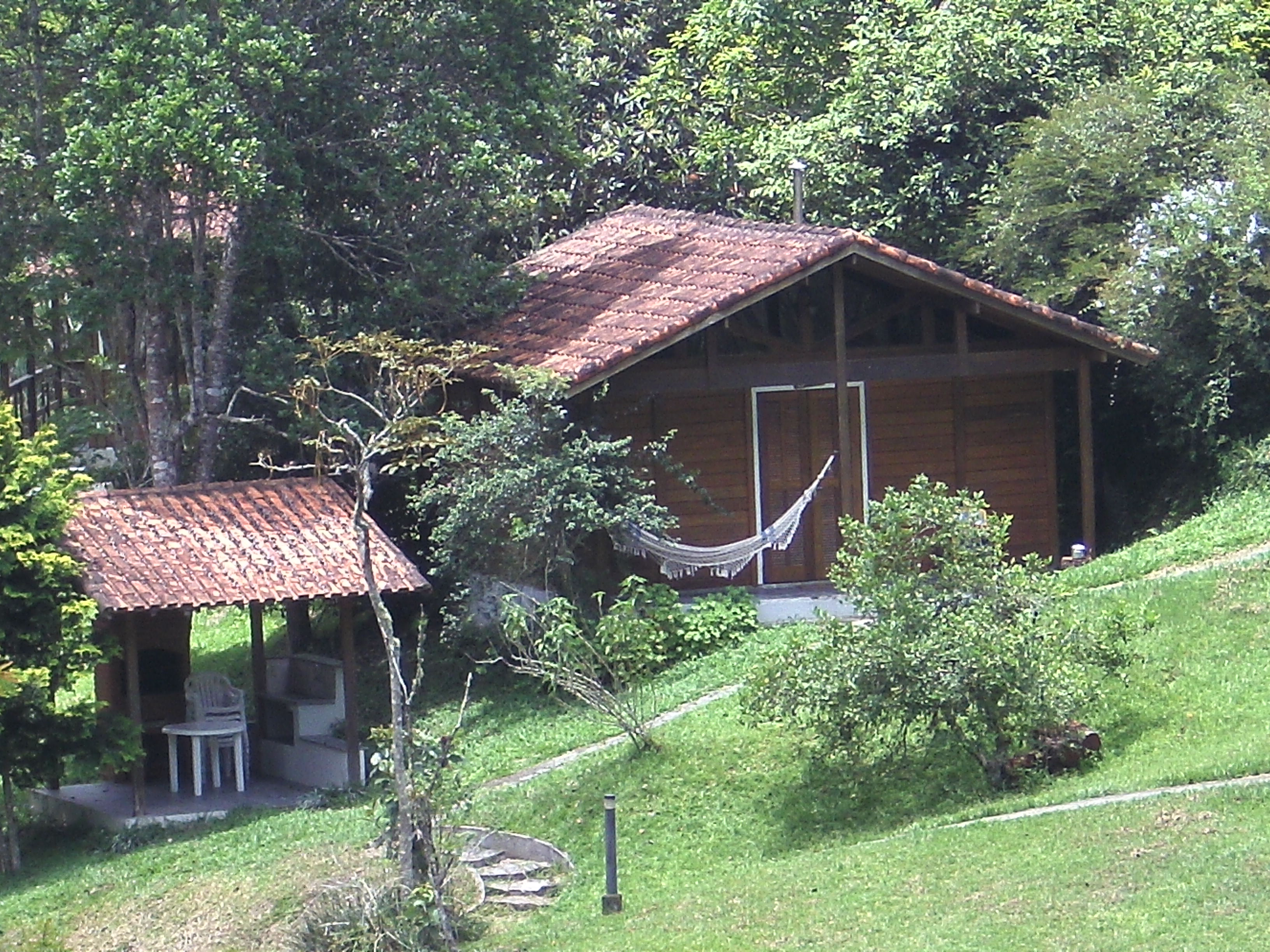 A tipical Chalet from camps of Sao Paulo